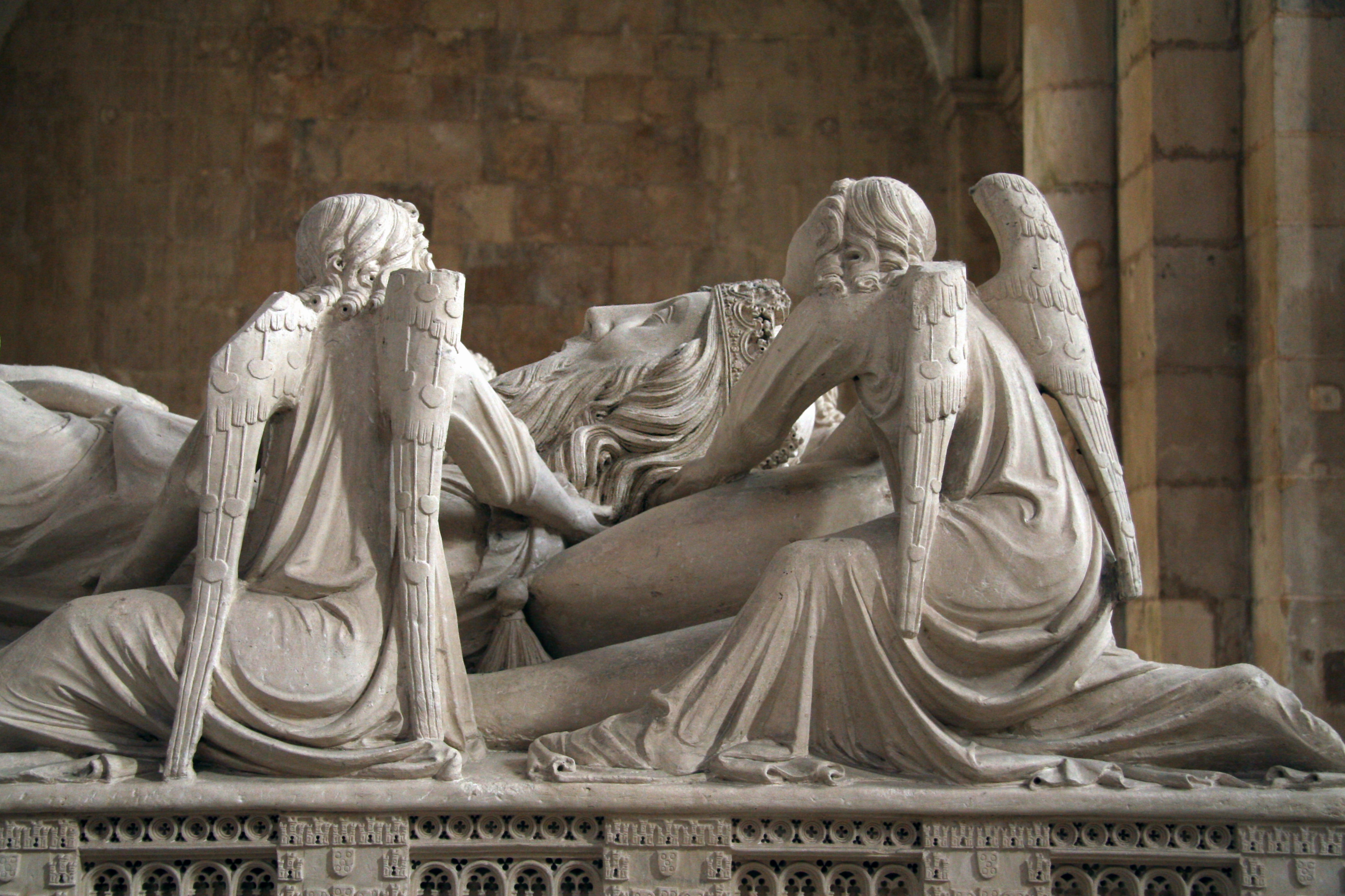 Tomb of King Pedro I